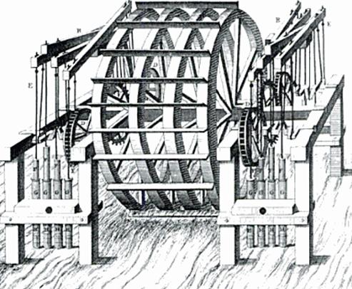 George Sorocold's Water Power wheel from the River Thames at London Bridge from a 1729 book by Stephen Schwitzer